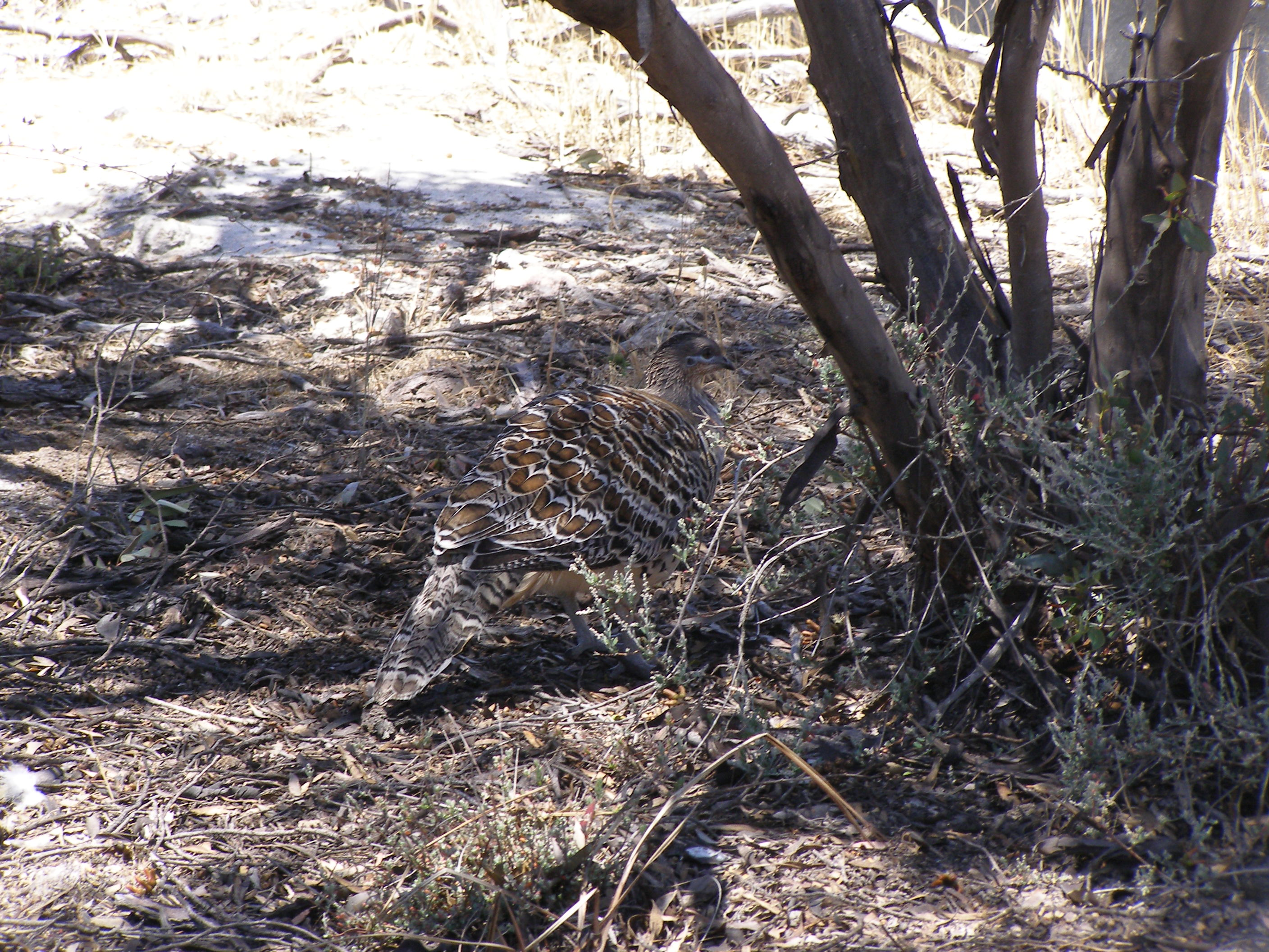 A well-camoflauged mallee fowl at Yongergnow Malleefowl Centre, Ongerup, Western Australia